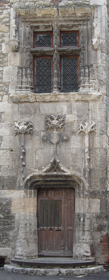 Detail of the main entrance of the 15th century Hôtel de Roaldès, also called 'House Henry IV' at Cahors, France.